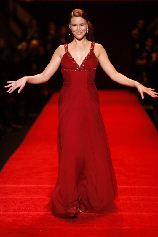 Joss Stone modeling at The Heart Truth Fashion Show 2008